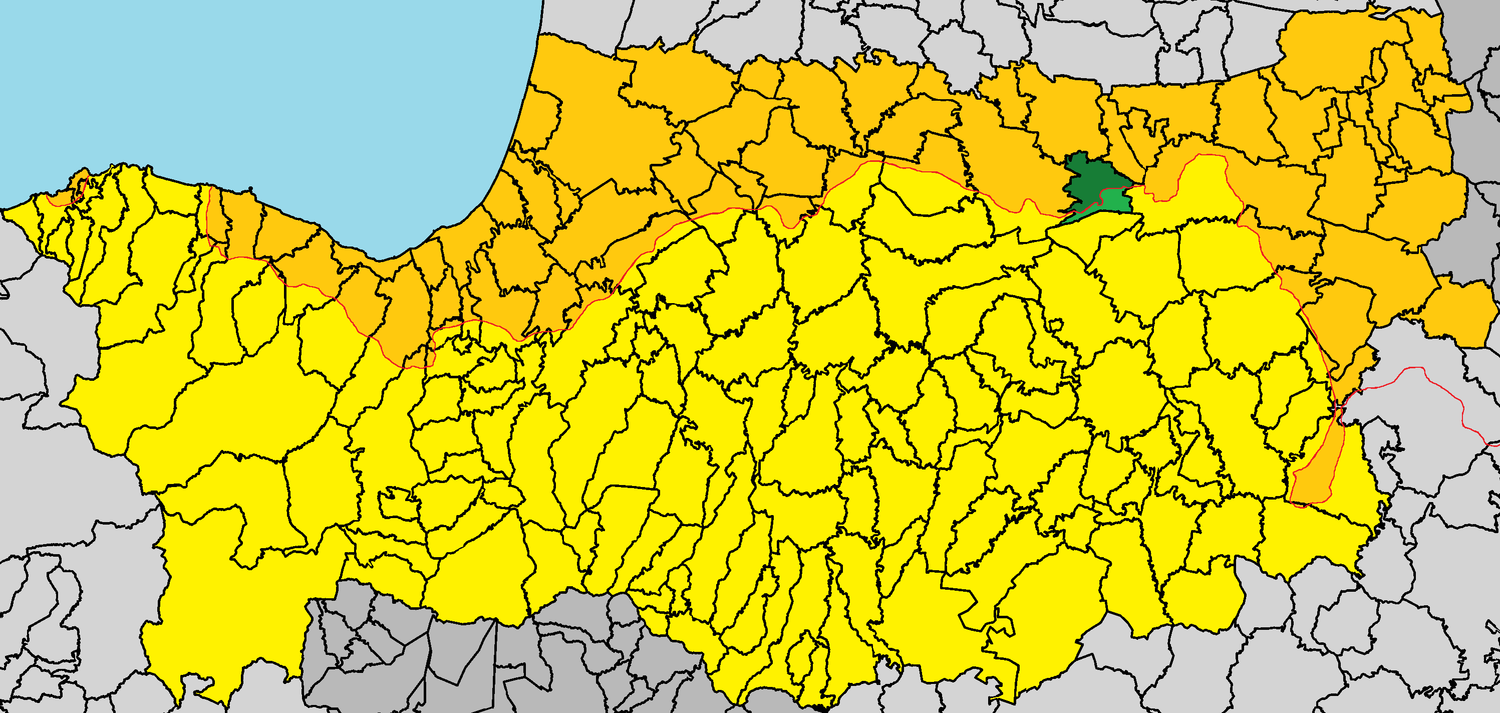 Ayios Dhometios in Nicosia District (de jure).